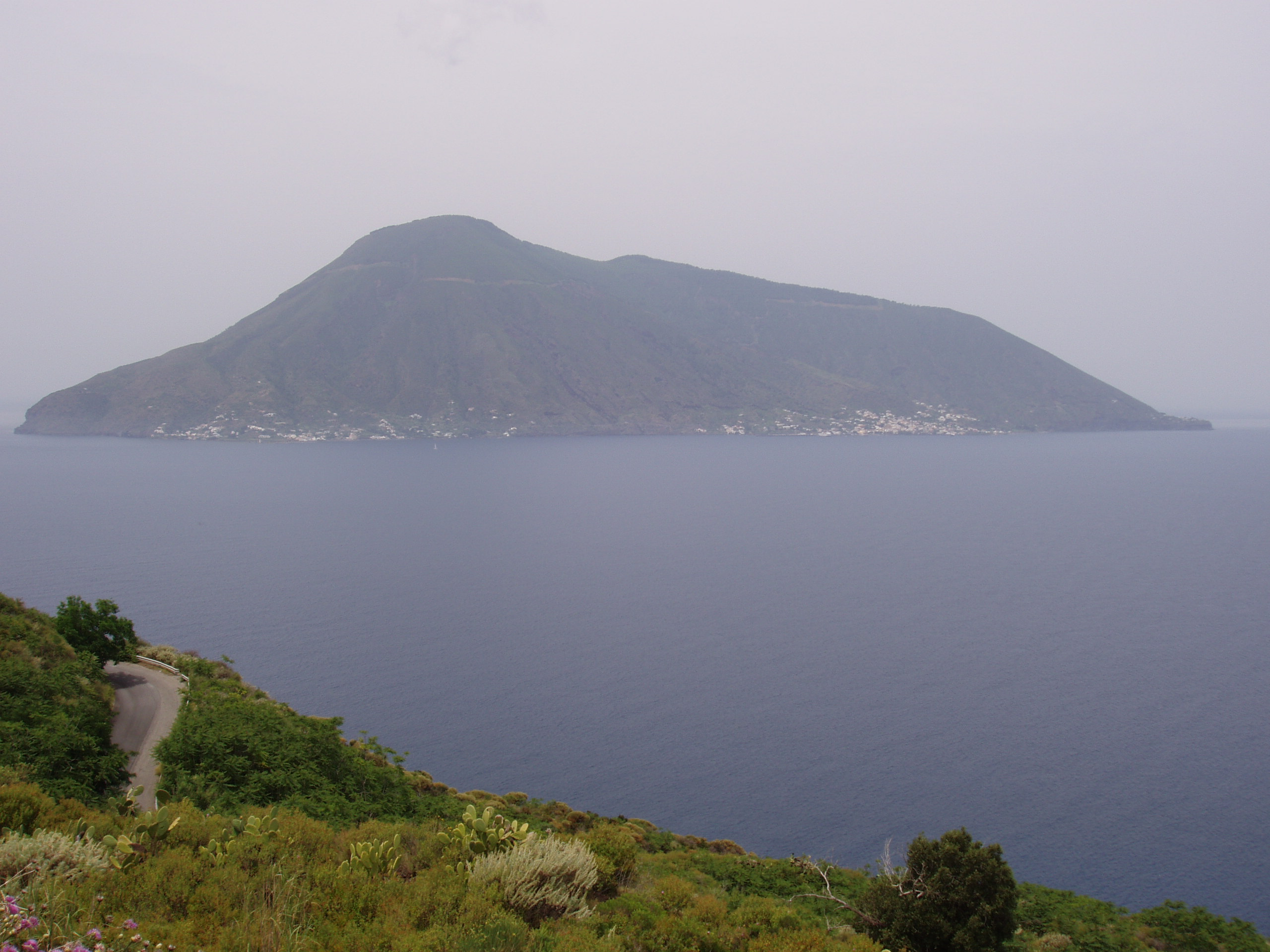 Picture of the Aeolian Island of Salina, taken by User:Herandar on 06/14/2005.